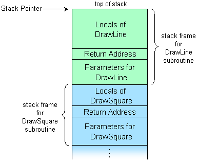 Example layout of a call stack showing stack frames